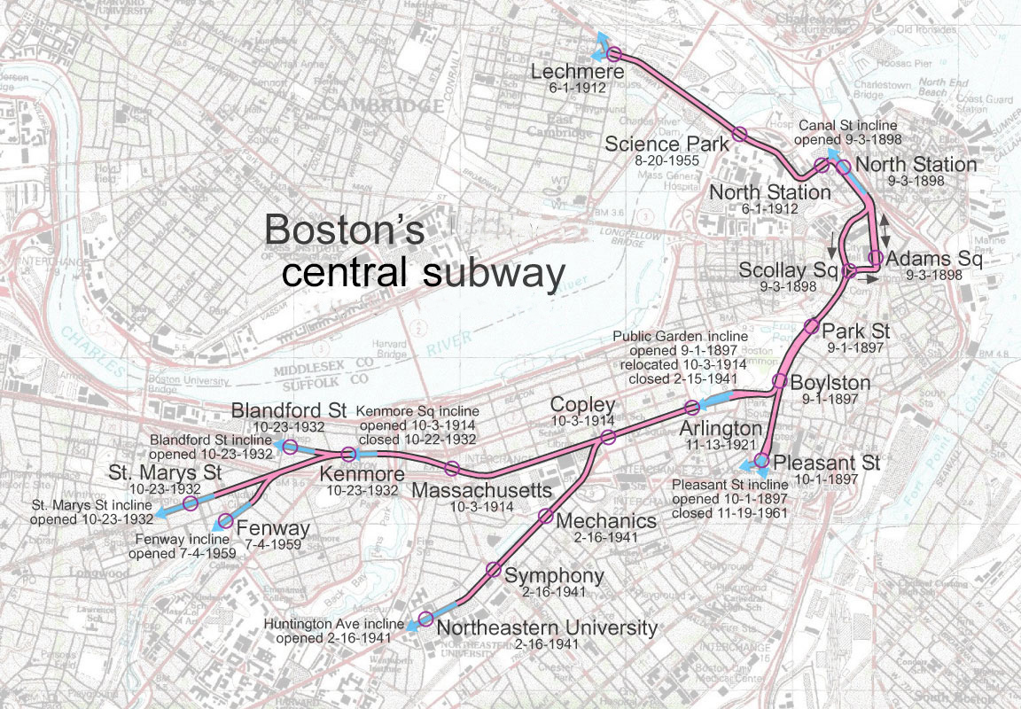 Map of Boston's central subway (plus Lechmere Viaduct), showing portals used over time, with opening and closing times. See further corrections are related image File:Tremont_Street_Subway.jpg.